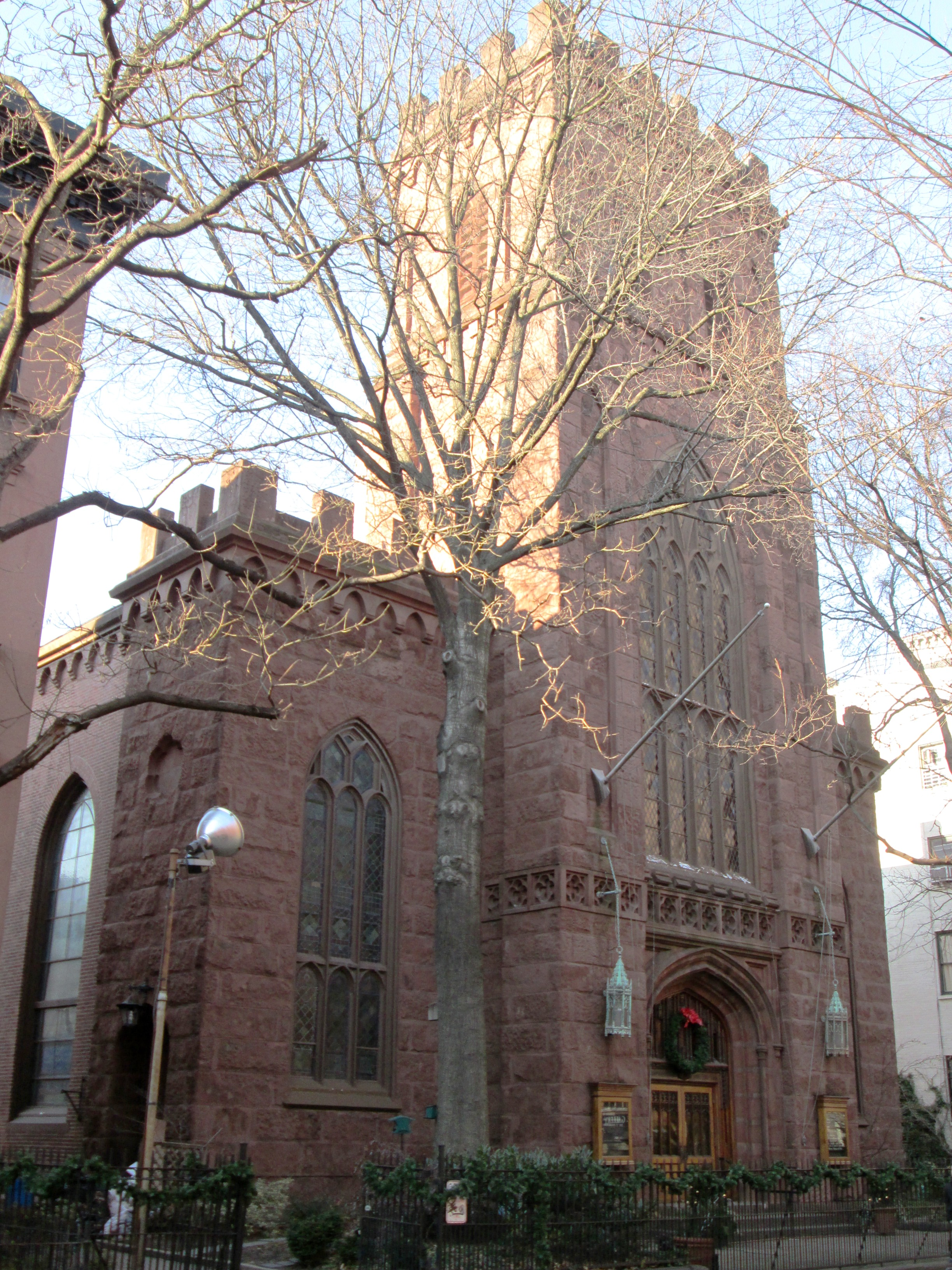 The First Presbyterian Church at 124 Henry Street between Pierrepont and Clark Streets in the Brooklyn Heights neighborhood of Brooklyn, New York City was built in 1846 and was designed by William B. Olmstead. The congregation dates from 1822 and had their original church on Cranberry Street between Henry and Hicks Streets. At the time of the great schism in American Presbyterianism over slavery and other issues, some members of the church, in reaction to the "New School" preaching of Dr. Samuel Hanson Cox, split to start an "Old School" church, located at Remsen and Clinton Streets. while others left help start the Church of the Pilgrims, and others joined the Plymouth Church, which in 1846 bought the First Presbyterian site when the First Church, needing to expand, moved to Henry Street. Many of the stained glass windows in the new church were by the Louis Comfort Tiffany Studios. (Source: "History" from the church website)